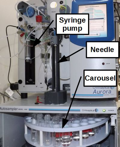 Analytical device with an autosampler for liquid samples. A carousel holds the sample vials, a motorized needle moves vertically in or out of the samples, and a syringe pump connected to the needle using a tubbing sucks the liquid for measurement.